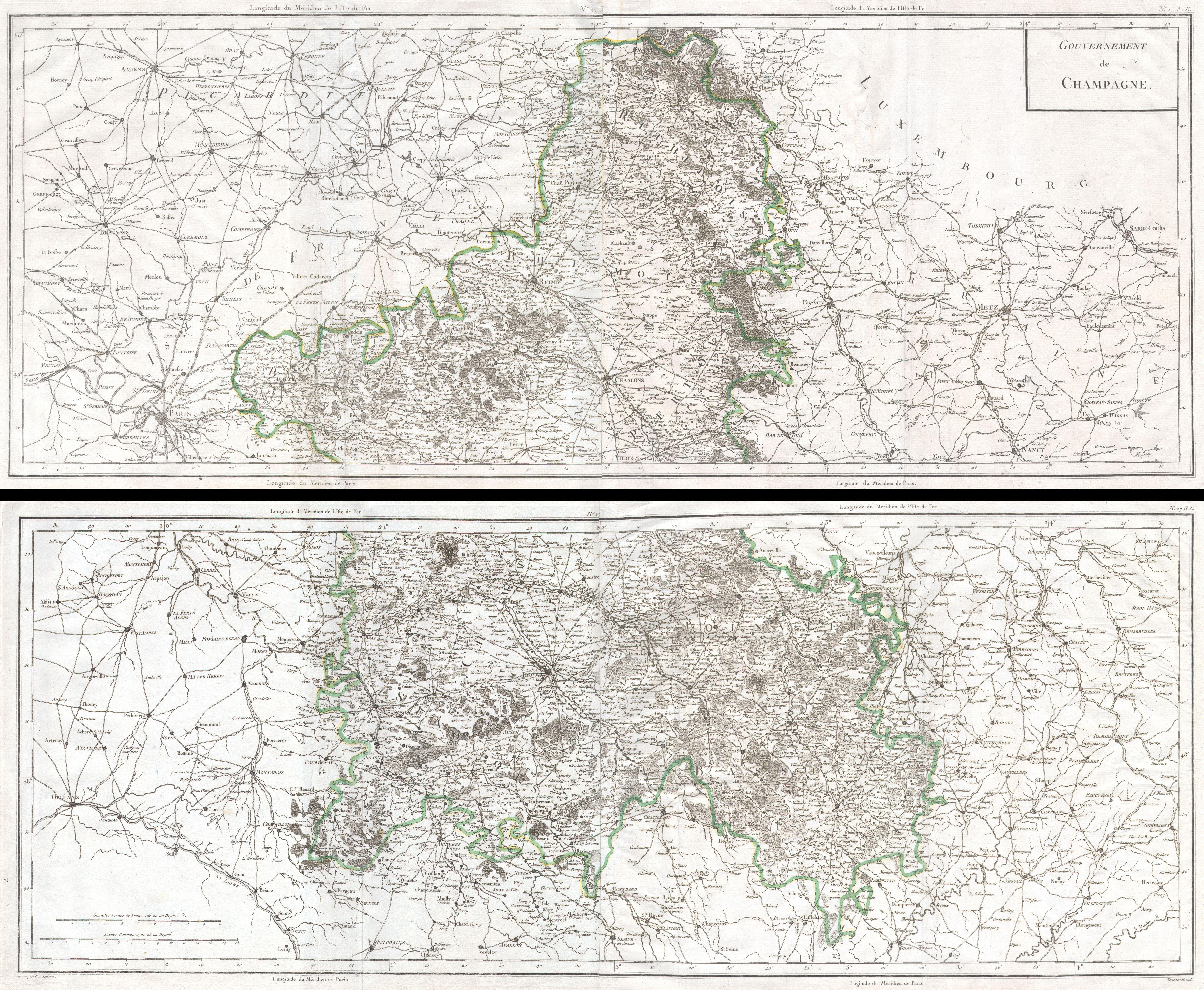 This is a rare and enormous 1797 Tardieu map of the Champagne region of France Printed during the French Revolution - an 6 de la Republique. Covers from Paris in the west to Sarre-Louis in the east, from Rocroi in the north to Avallon in the south. Includes the full extent of the Champagne district. Printed on four sheets, the northern two of which are joined as a set, as are the southern two. Depicts the region in incredible detail showing roads, canals, rivers, cities, fortresses, villages, chateaux, etc. The region outside of Champagne proper is less detailed, but still offers a wealth of cartographic information and includes the important centers of Paris, Orleans and Beauvais. Champagne is famous around the world for its spectacular sparkling wines of the same name. Historically the province of Champagne was bounded on the north by the bishopric of Liège and by Luxembourg, on the east by Lorraine, on the south by Burgundy, and on the west by Îlele-de-France, and by Picardy. Along with the other original French provinces, Champagne was abolished as a separate entity in 1790. Today this region consists of five départements: Aisne, Aube, Haute-Marne, Marne, and Seine-et-Marne. The towns of Troyes (capital of Champagne), Reims and Épernay are the commercial and government centers. A fabulous decorative piece for perfect for wine store, Champagne wine cellars, and French restaurants. This map was originally prepared for inclusion in Edme Mentelle’s (1730-1815) Atlas Universel de Géographie Physique et Politique, Ancienne et Moderne, Présenté a l'Instruction des Écoles Centrales, Pour les classes de Géographie, d'Histoire, et de Législation. Represents plate numbers 35-38.